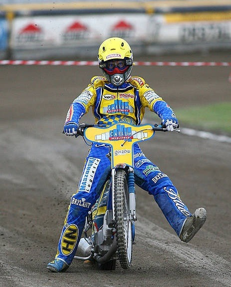 Tomasz Gollob in the break between races.